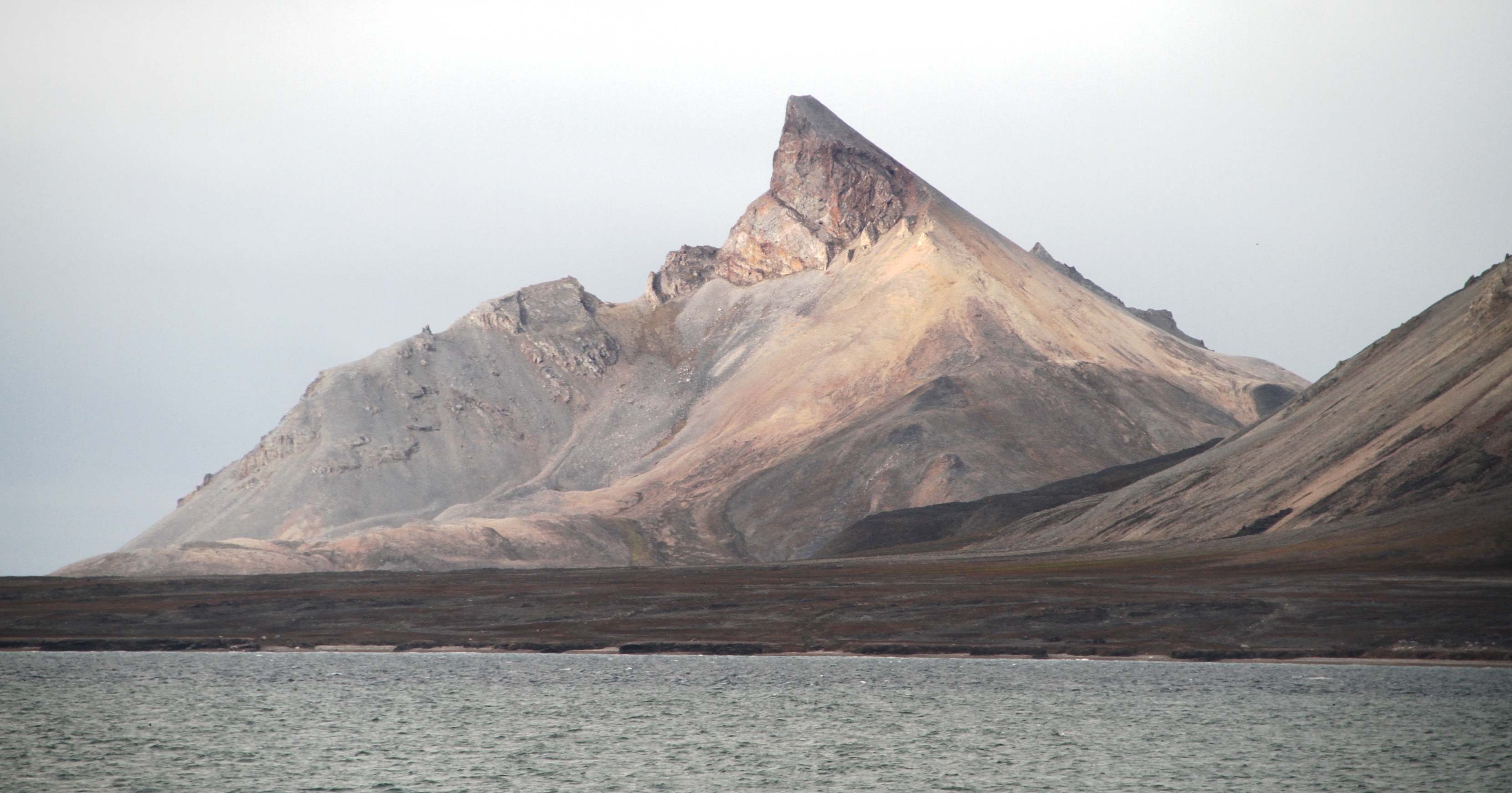 Kapp Mitra and Mitra mountain in southwestern Albert I Land, north inlet of Kongsfjorden, western Spitsbergen